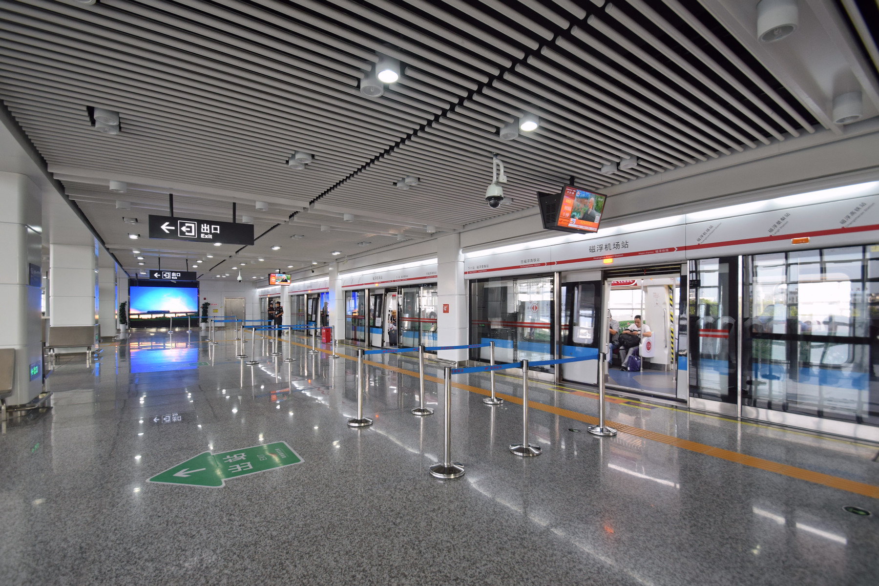 Platform of Huanghua Airport Staion, Maglev Express, Changsha